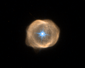 Color rendering is done by by Aladin-software (2000A&AS..143...33B.)